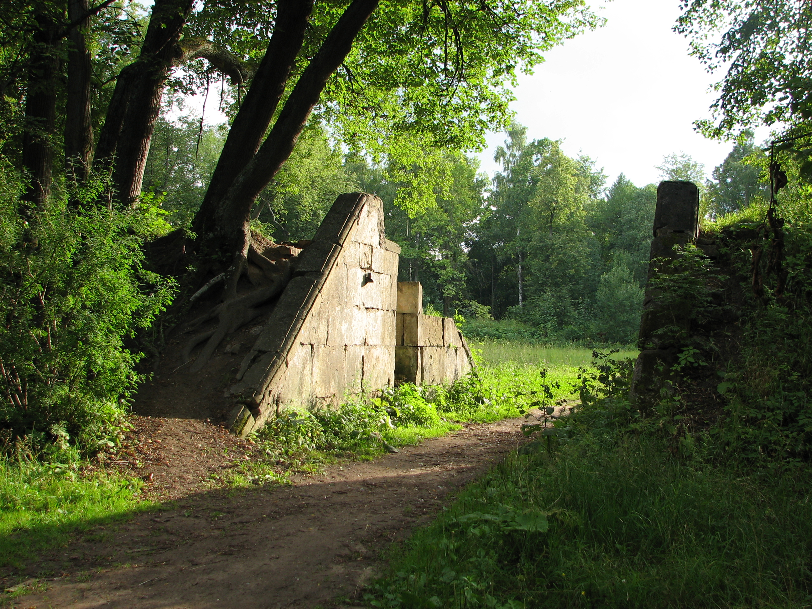 One of the entrances to the Amphitheater in Palace Park in Gatchina